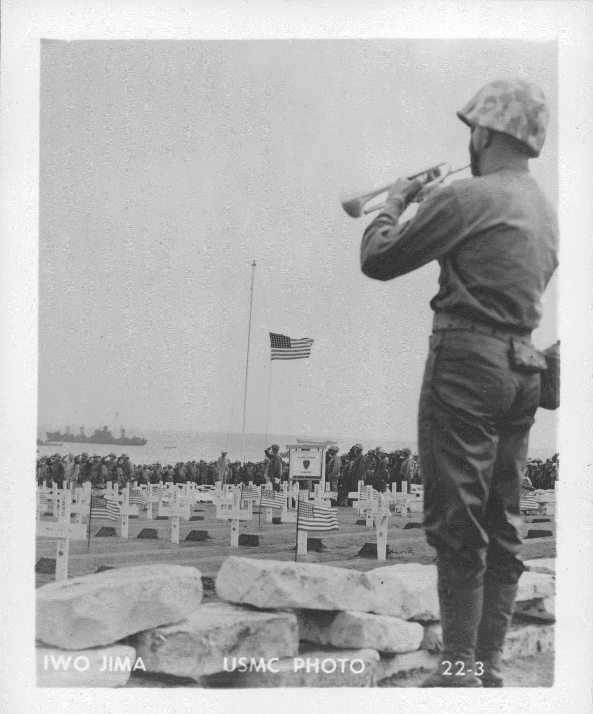 From the Ralph J. Vaccaro Collection (COLL/5245) at the Marine Corps Archives and Special Collections OFFICIAL USMC PHOTOGRAPH